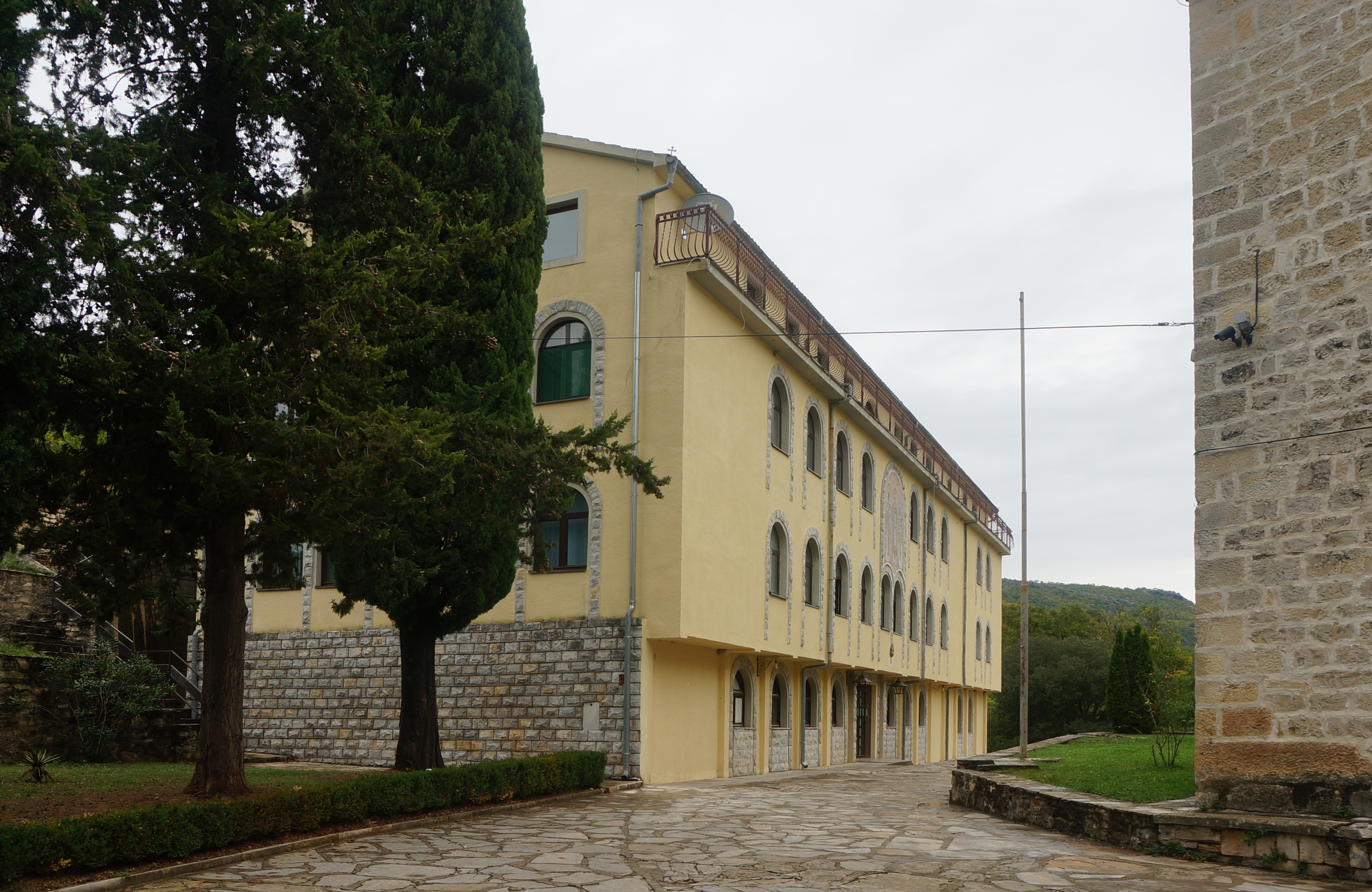 Seminary building of the Krka Monastery, Croatia.